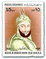 Mohammad Akbar Khan of Afghanistan.